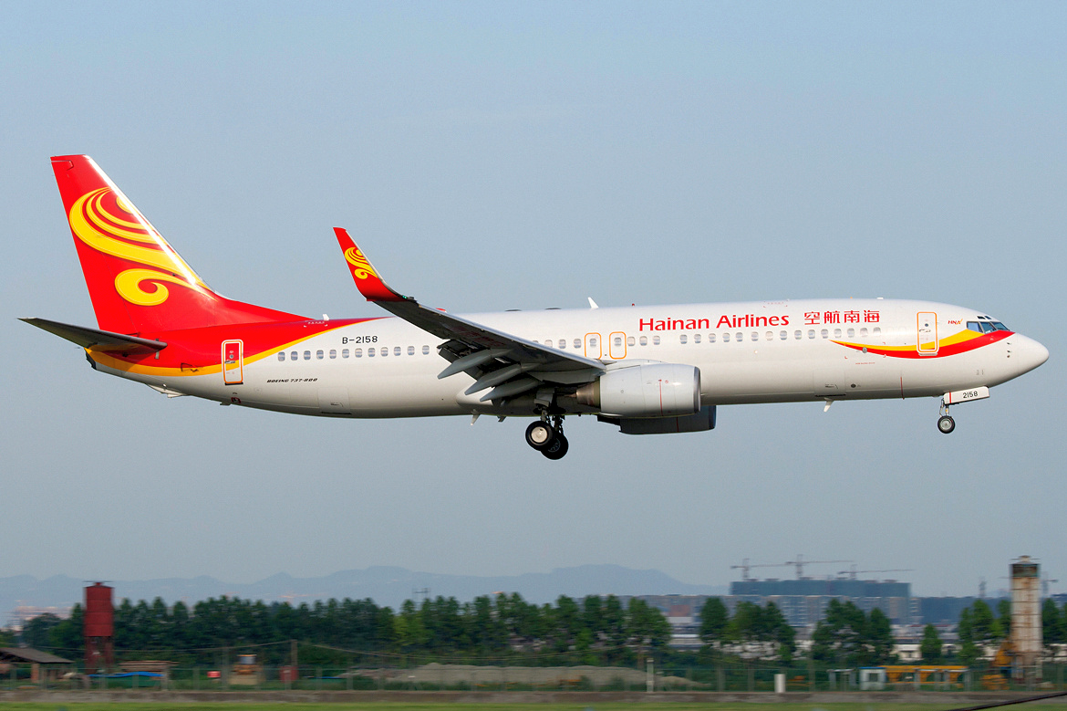 A Hainan Airlines Boeing 737-84P at Chengdu Airport (CTU / ZUUU)